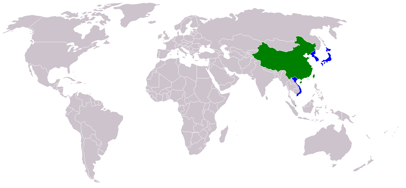 Chinese-world map, a cultural topic: Chinese world (Mainland China, Hong Kong, Macao, Singapore, Taiwan). Areas with strong Chinese cultural influence (Japan, Korea, Vietnam, Mongolia).